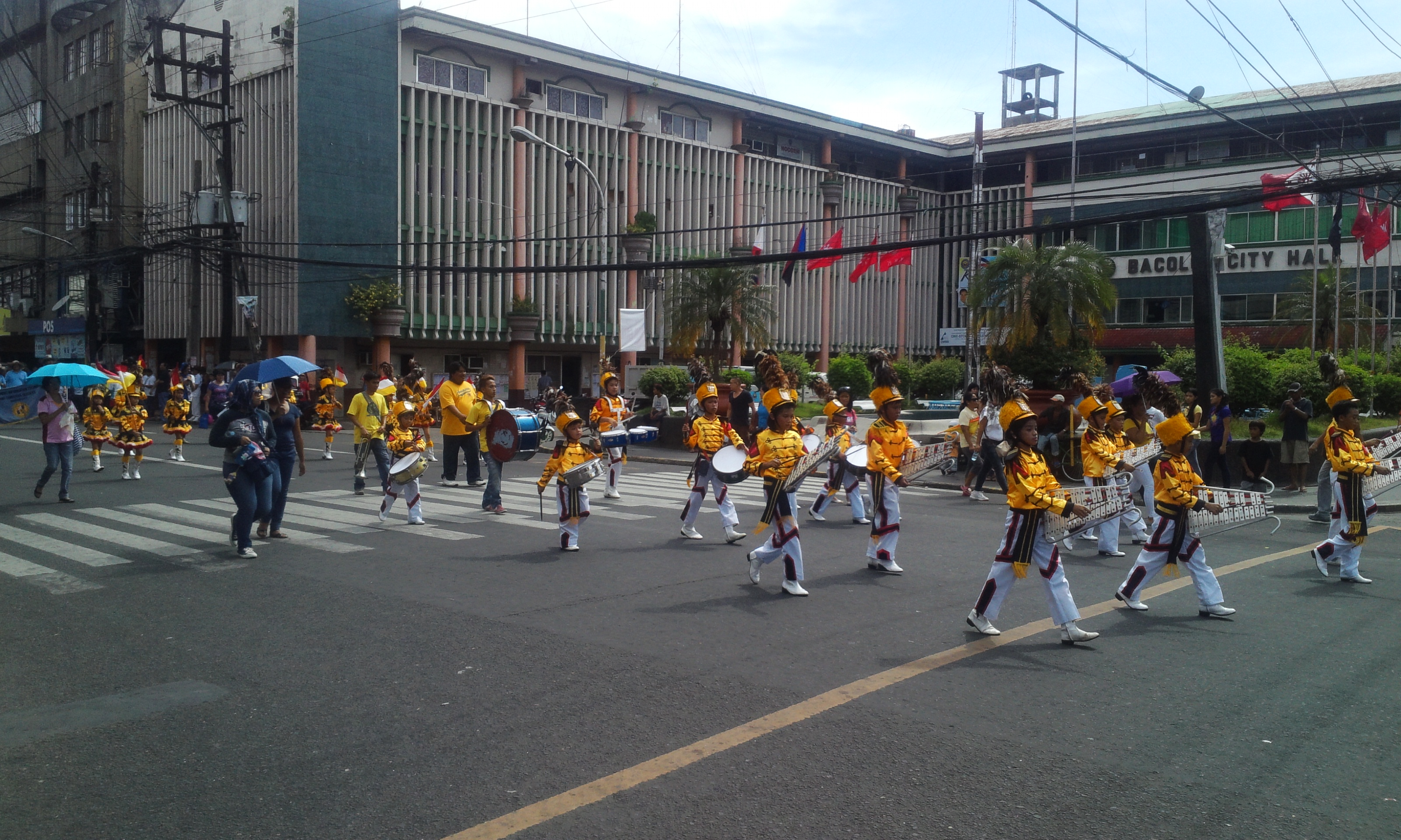 Independence Day of the Philippines's parade in Bacolod, June 12th